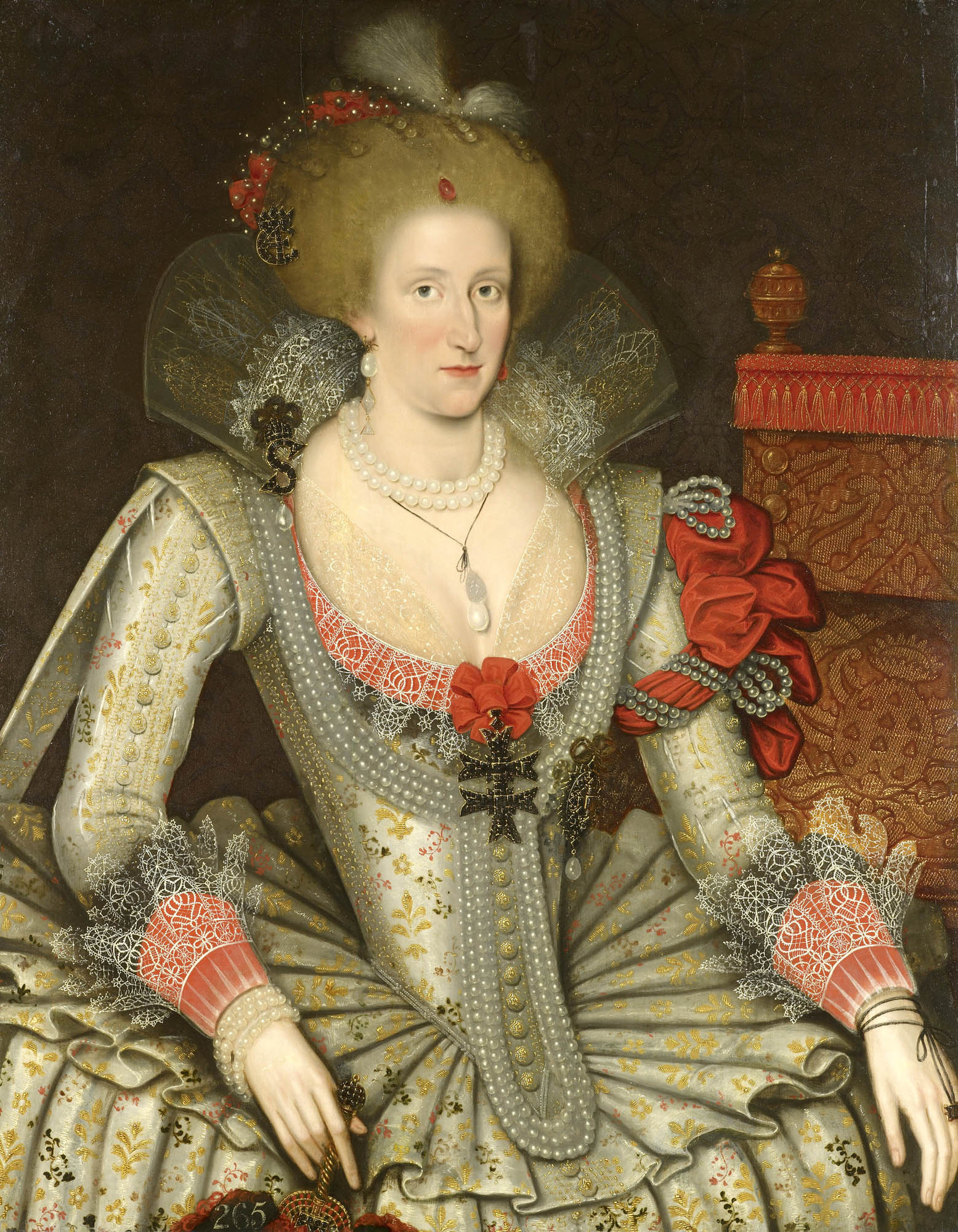 Portrait of Anne of Denmark, Queen of England.